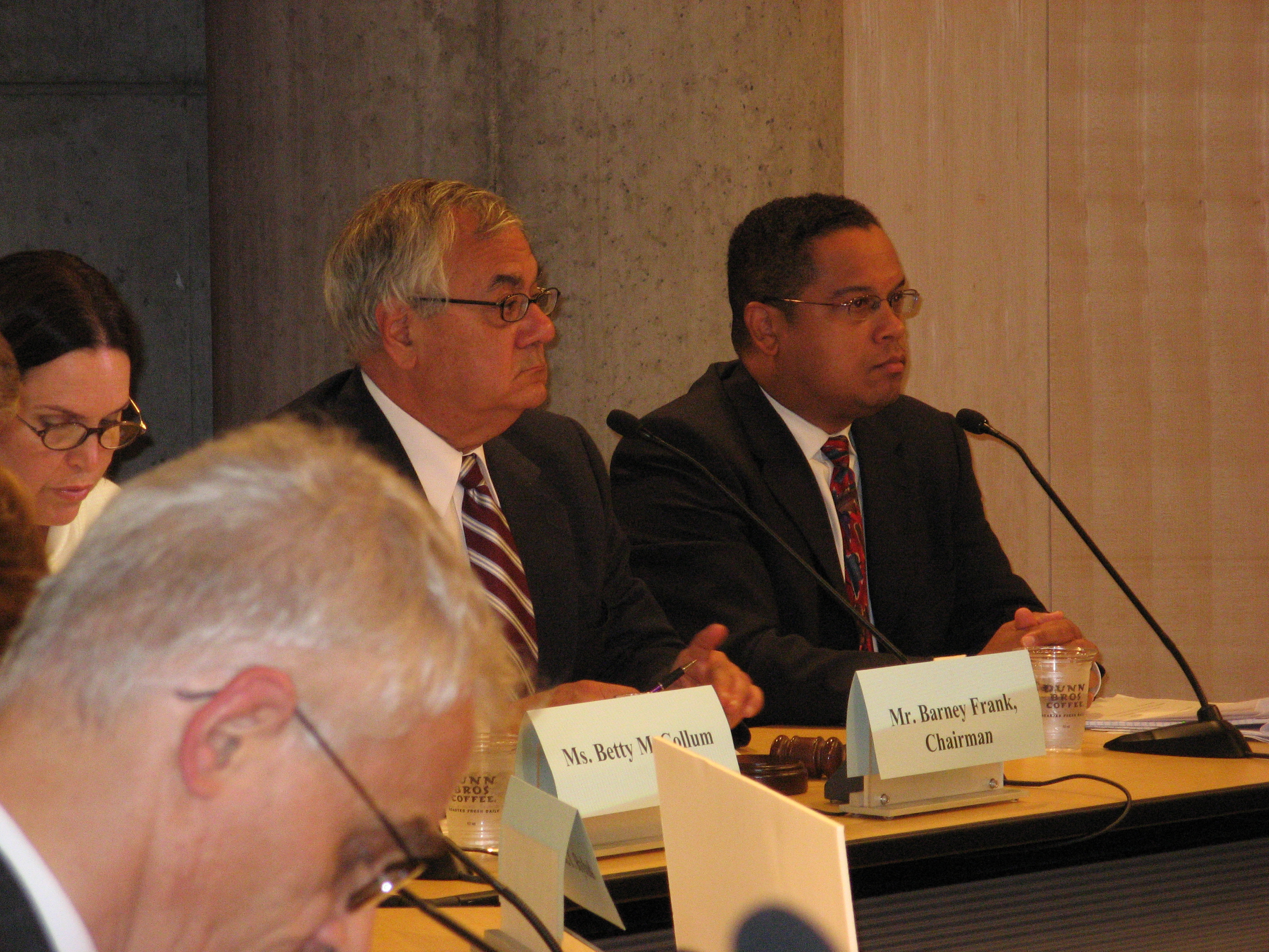 Chairman Barney Frank presided and Congresswoman Betty McCollum also asked questions